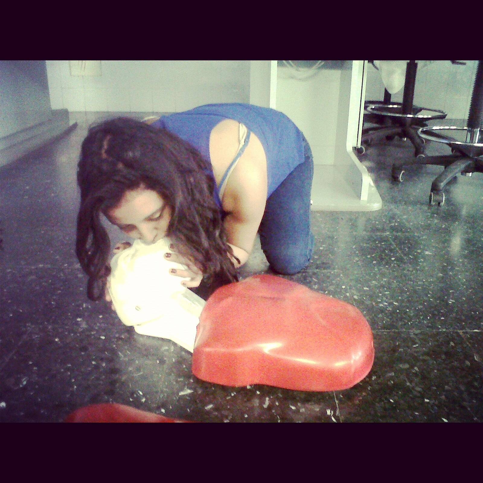 A medical student performing CPR during a medical training.